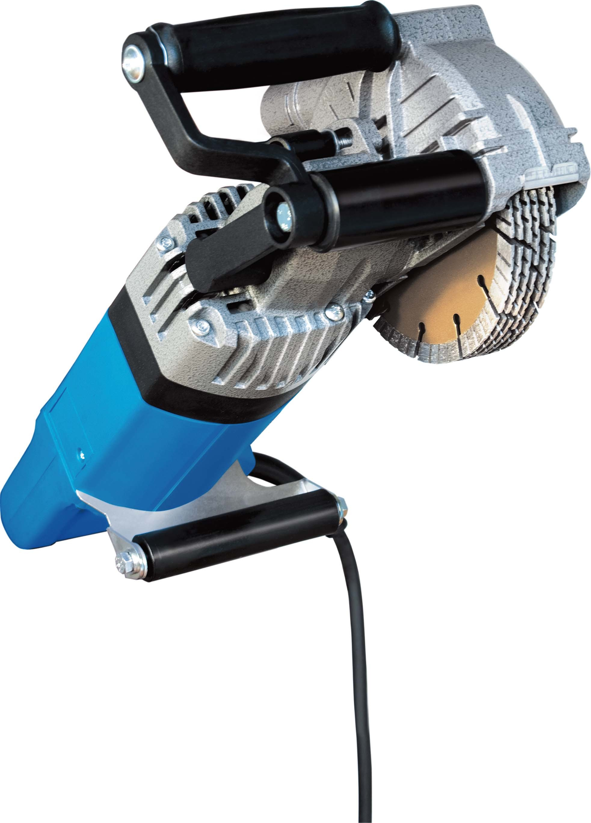 Diamond cutter with 6 diamond wheels for web-free milling up to 25 mm wide and 45 mm deep